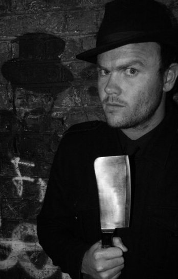 Picture of director Richard Crawford